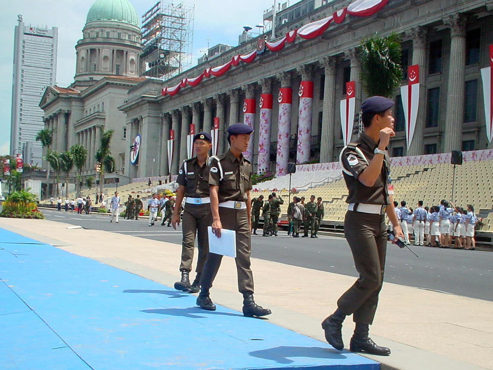 Singapore Armed Forces Provost Unit members providing security coverage at the National Day Parade 2000 held at the Padang, Singapore. The City Hall can be seen on the right, while the Supreme Court is pictured at left.